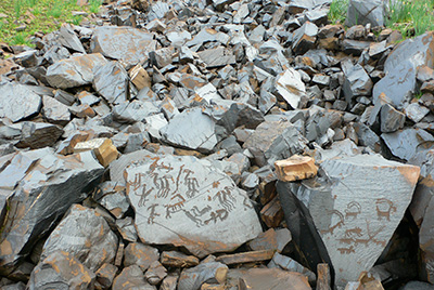 Moraine at Saimaluu Tash, Kyrgyzstan